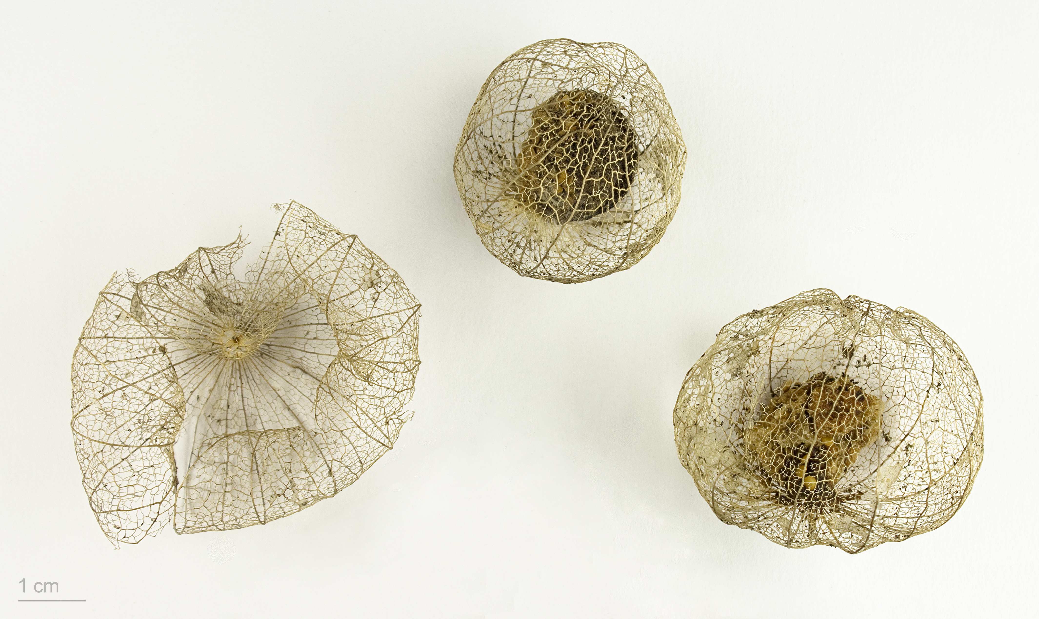 Physalis ixocarpa, tomatillo, fruits